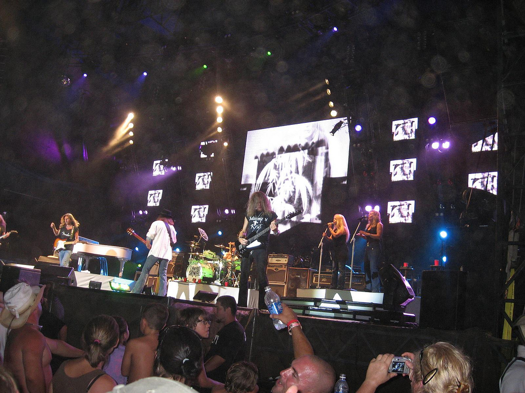 Lynyrd Skynyrd in concert - New Brockton, Alabama, June 7, 2008